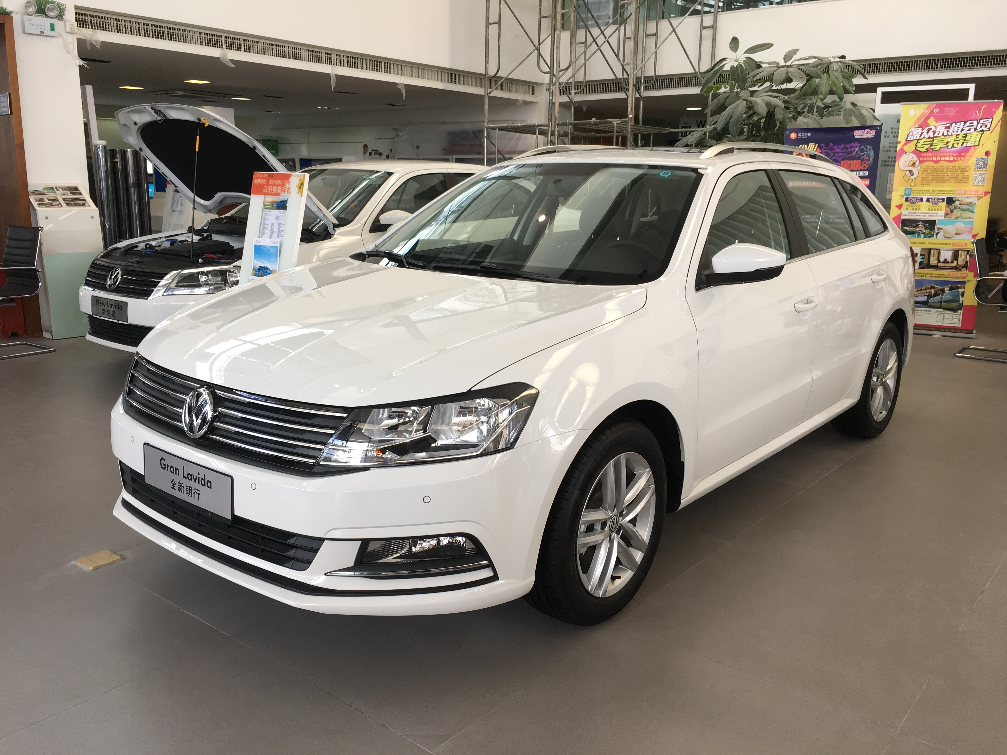 Volkswagen Gran Lavida, Made in Shanghai, P.R. China